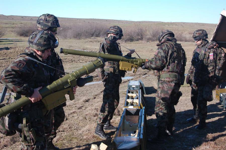 Slovenian soldiers with 9K38 Igla